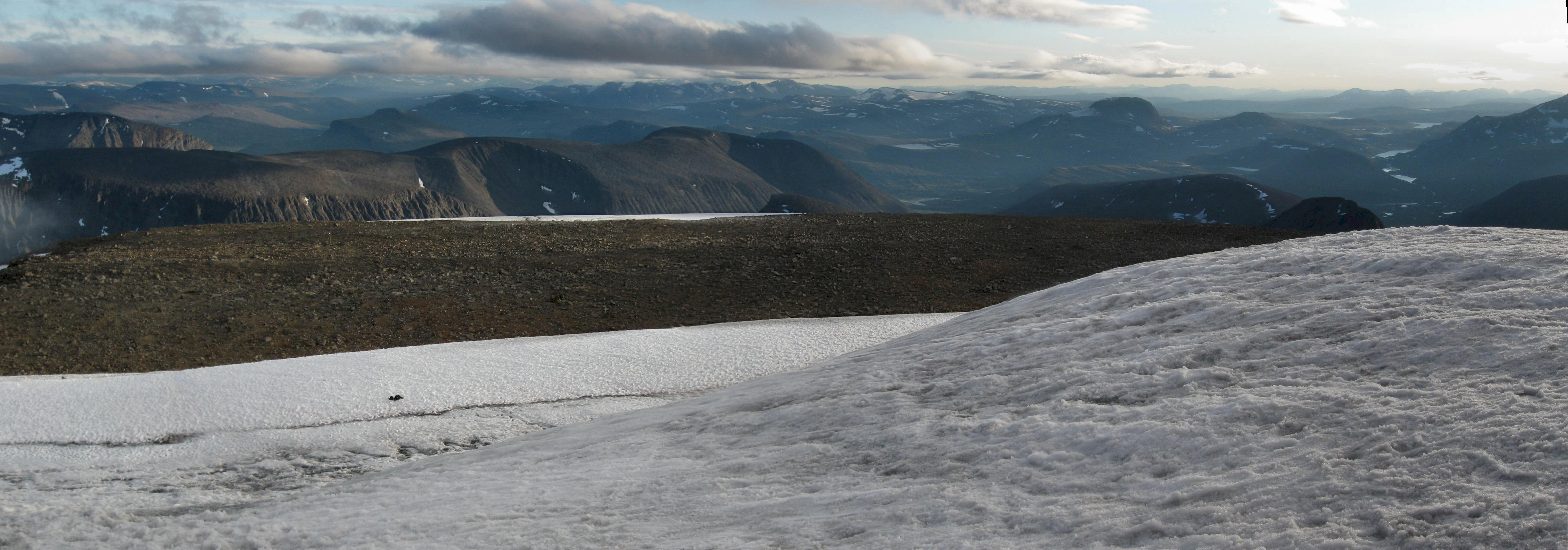 View of peak plateau from the southern summit of Mt.Kebnekaise, Sweden